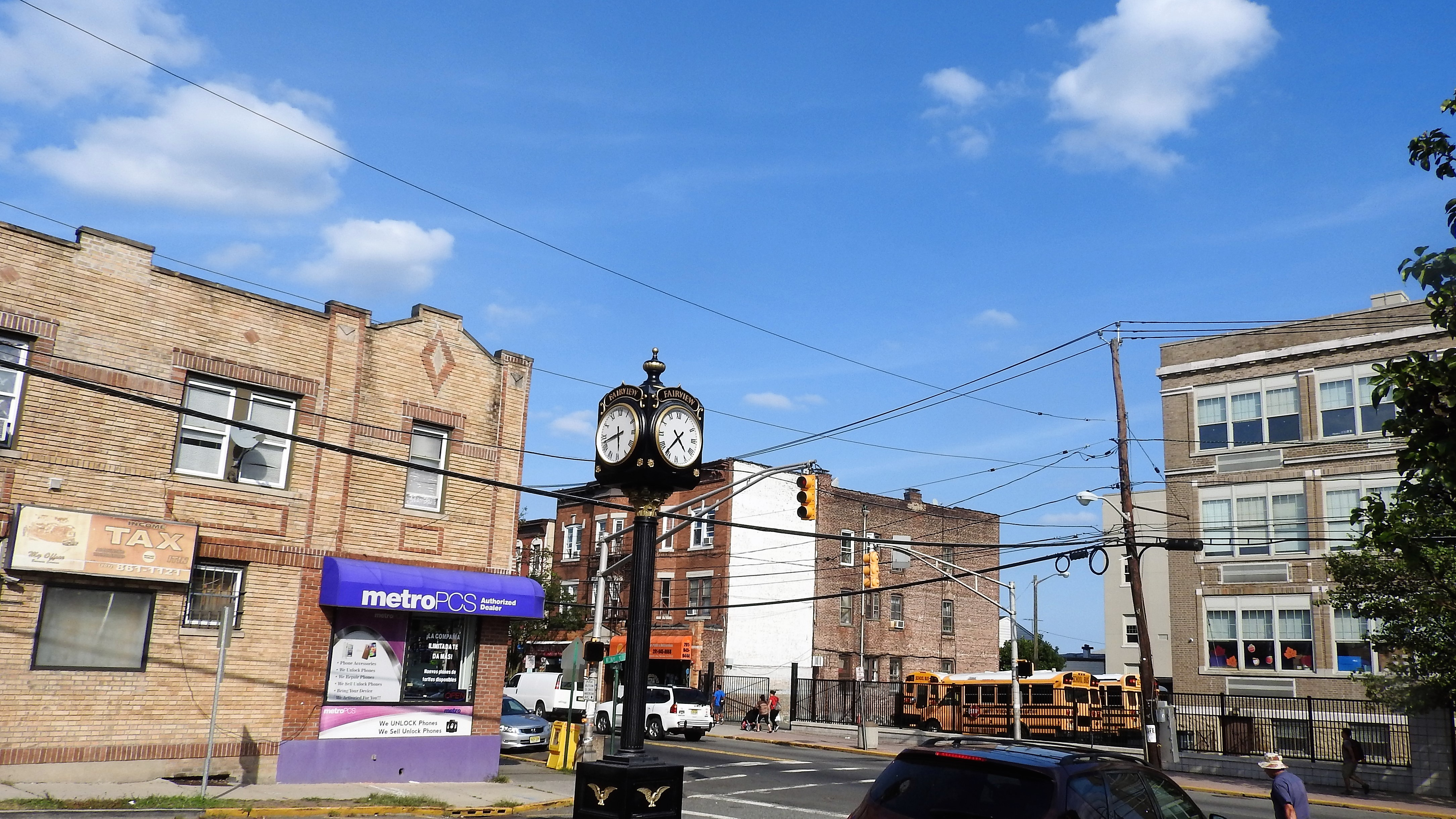 Looking east at central square with town clock on a sunny afternoon